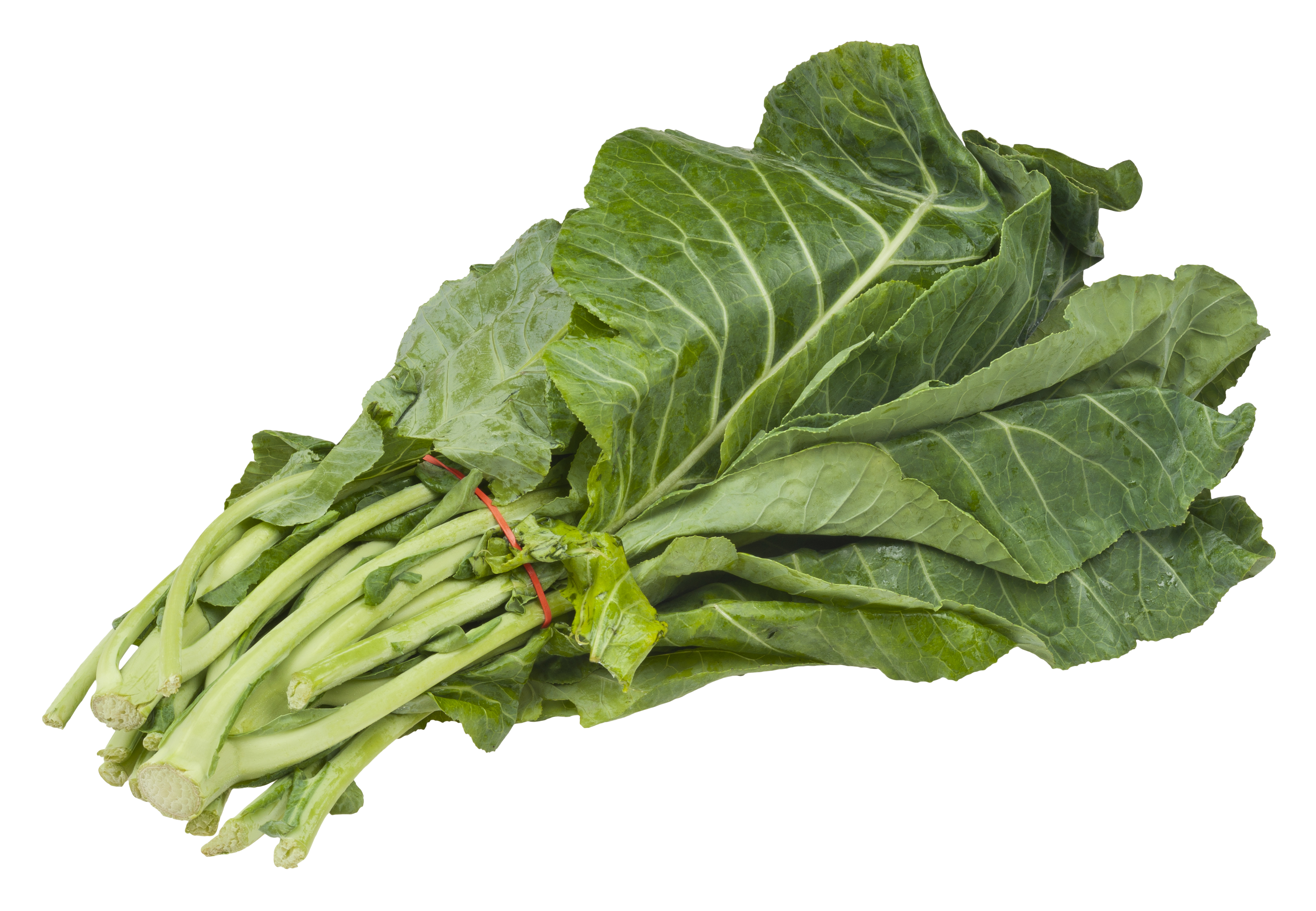 A bundle of collard greens, from an organic food co-op.